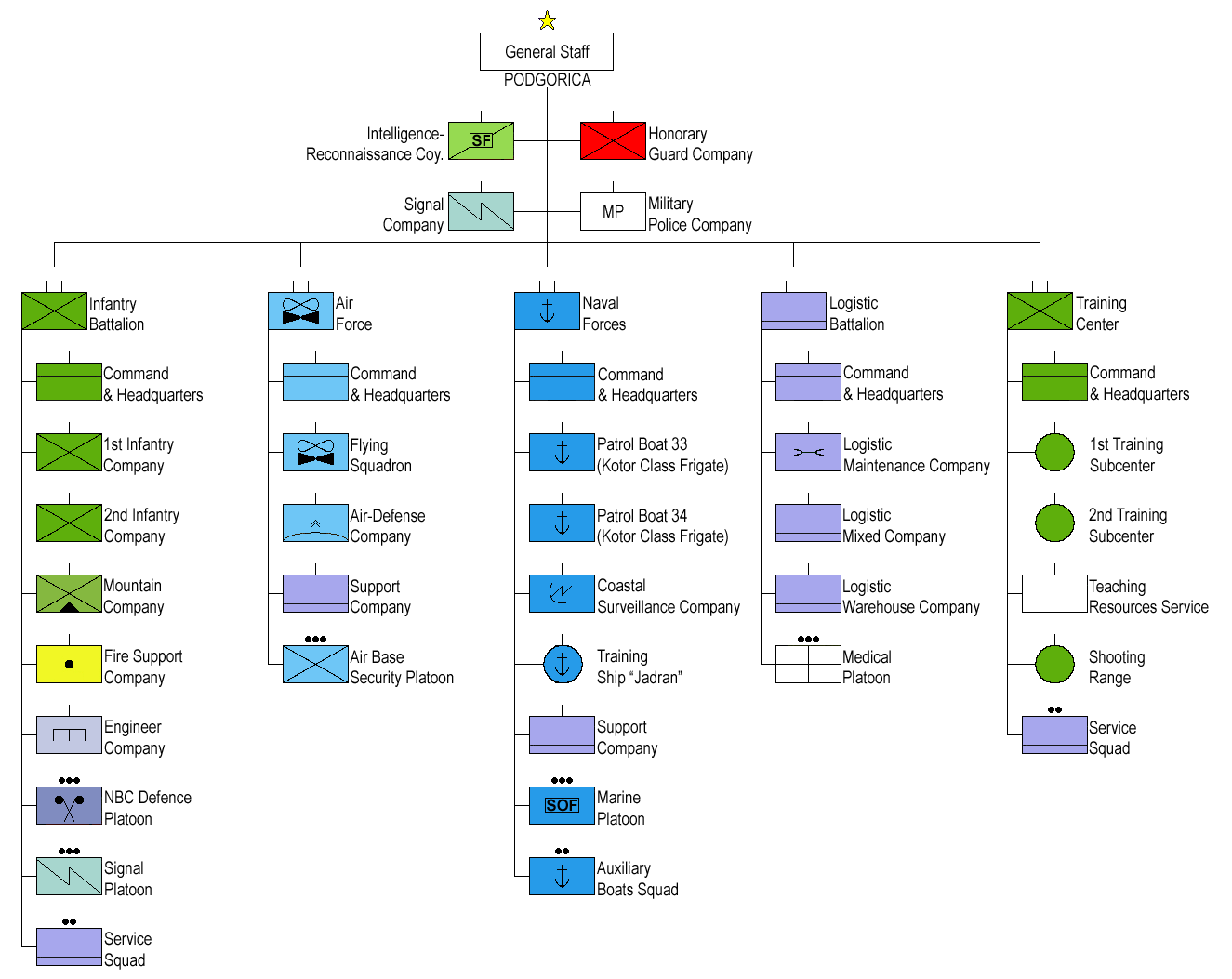 Structure of the Armed Forces of Montenegro after the 2015 reform